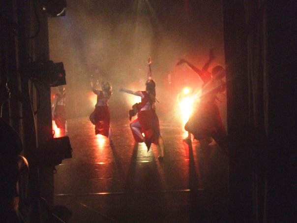 Orchesis Dance Company performing a modern piece in 2008. Orchesis Dance Company: Cal Poly San Luis Obispo performance.